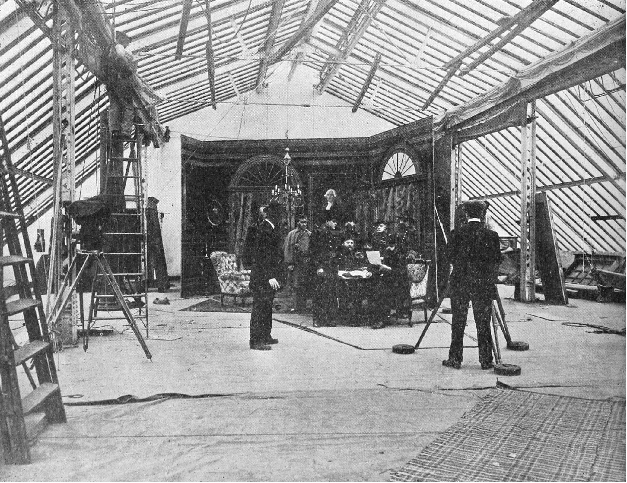 A movie set in the Pathé studio in 1912 "Where the Palisades have retreated from the Hudson and the old road to Paterson winds down into the lowlands of Hoboken stands the Pathe American studio, commanding a sweeping view, when Jersey City smoke permits, from one end of New York City to the other."